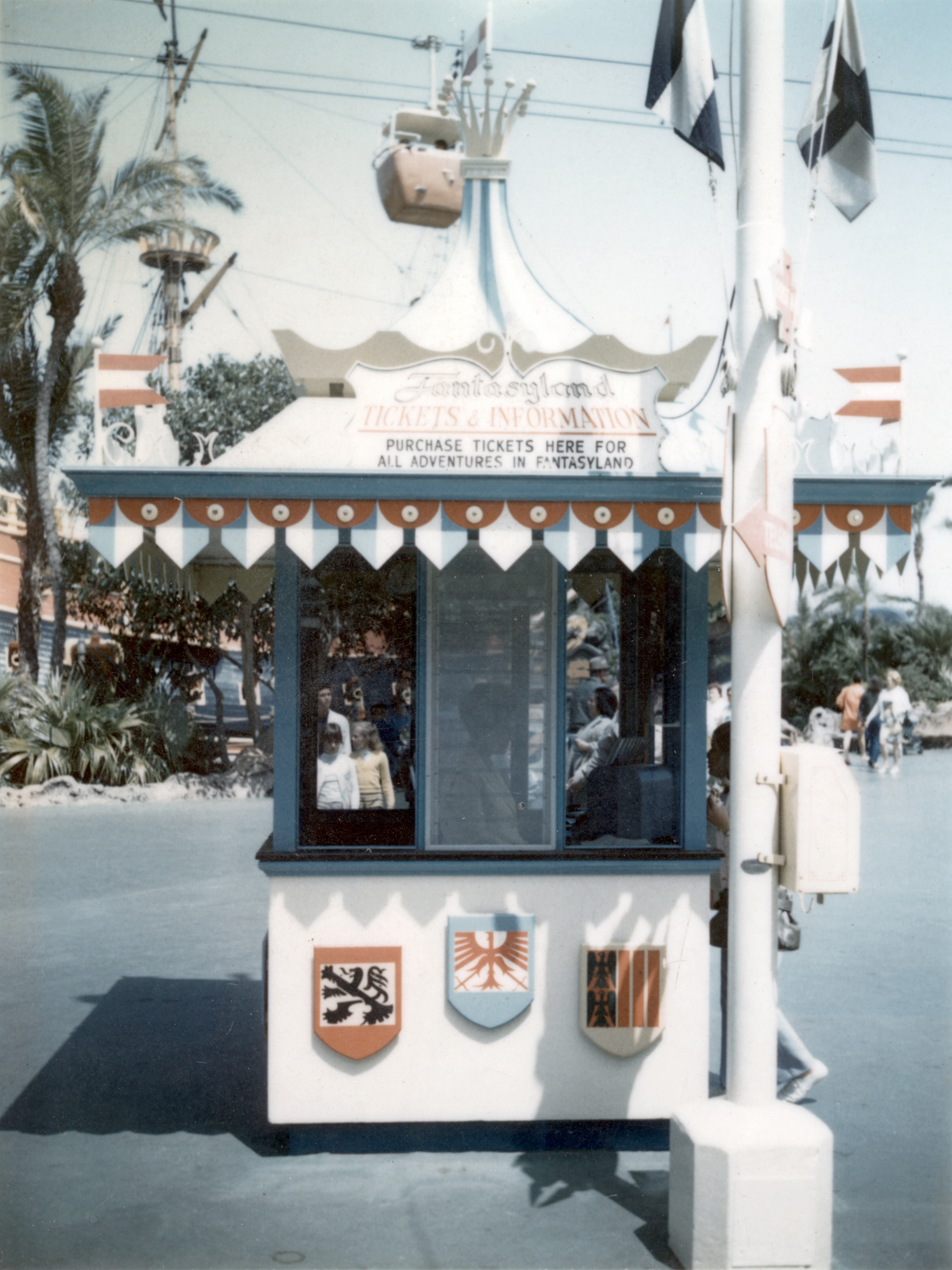 There are no known copyright restrictions on this image. All future uses of this photo should include the courtesy line, "Photo courtesy Orange County Archives." Comments are welcome after reading our Comment Policy . Acc#2012-16